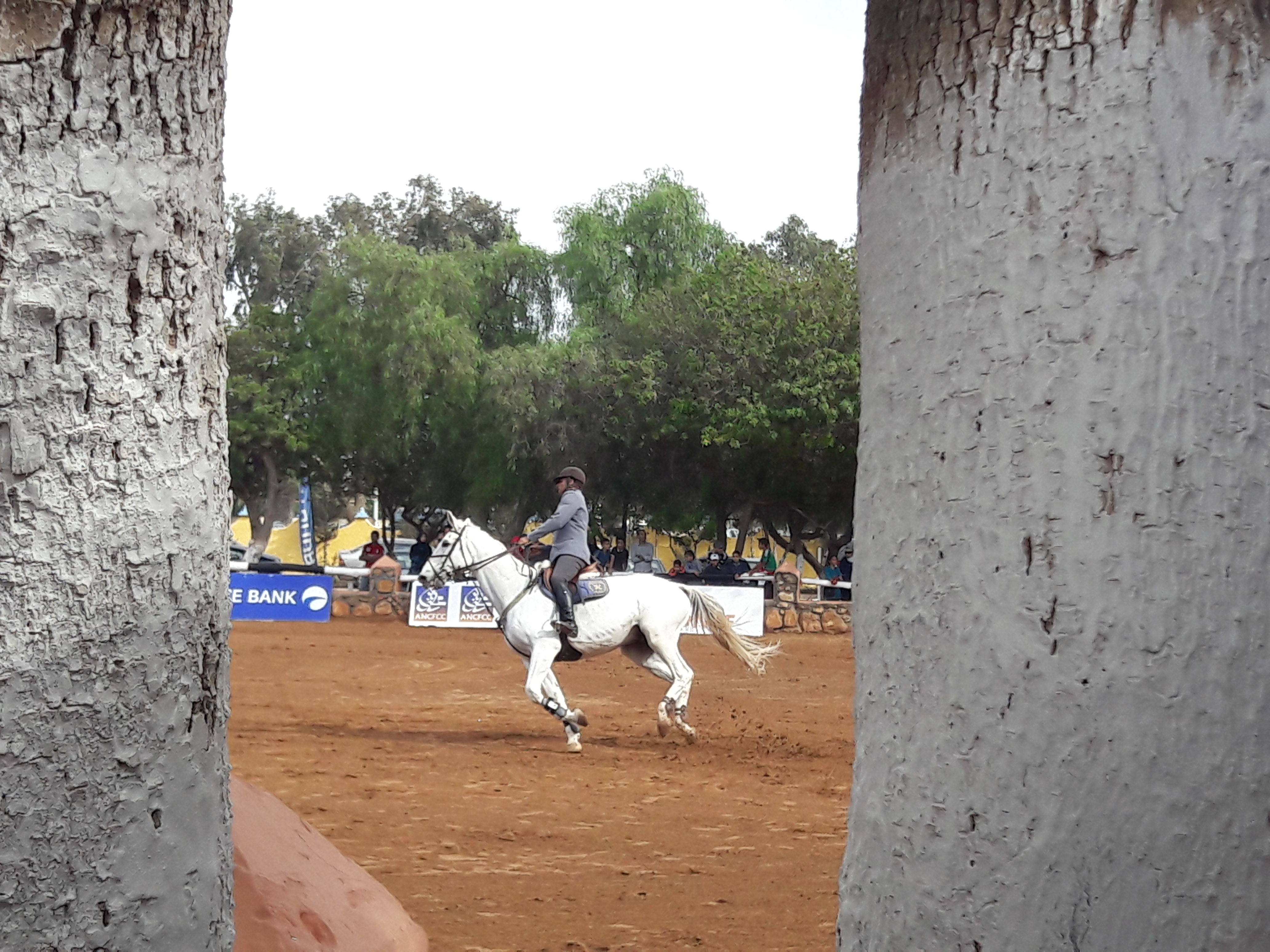 ⵜⴰⵎⴰⵣⵉⵖⵜ : ⴰⵎⵏⴰⵢ ⵖ ⴰⴳⴰⴷⵉⵔ This is an image from Morocco